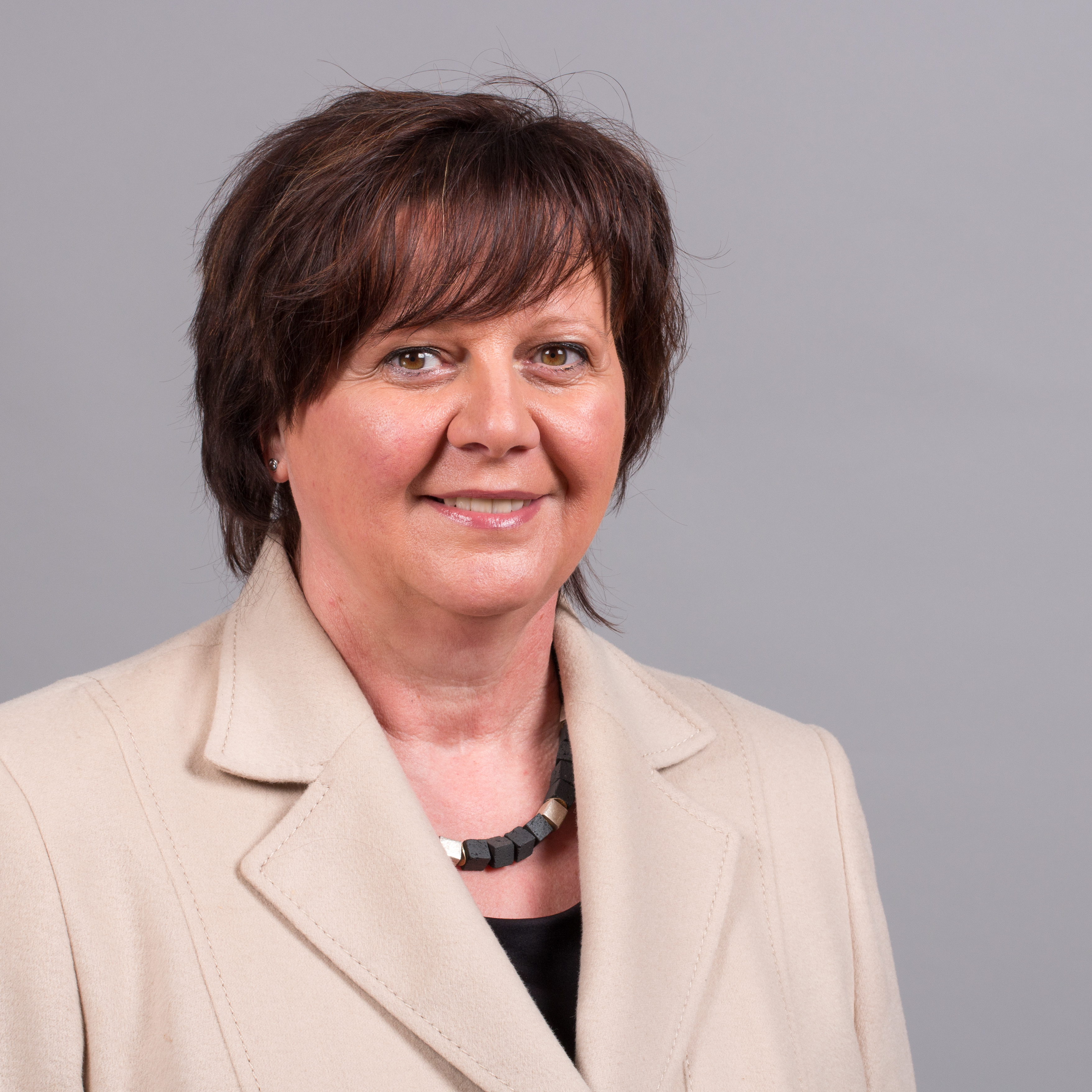 Elfriede Meurer, CDU, member of the Landtag of Rhineland-Palatinate